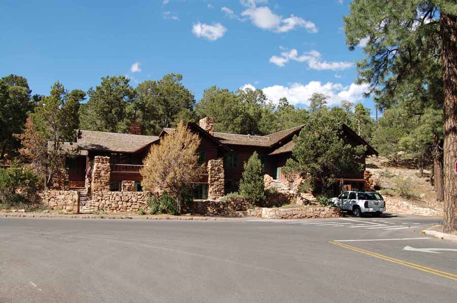 Grand Canyon National Park Superintendent's Residence — in Grand Canyon Village, South Rim of the Grand Canyon, Grand Canyon National Park, Arizona. The 1921 residence is within the Grand Canyon Village Historic District, on the National Register of Historic Places in Grand Canyon National Park.